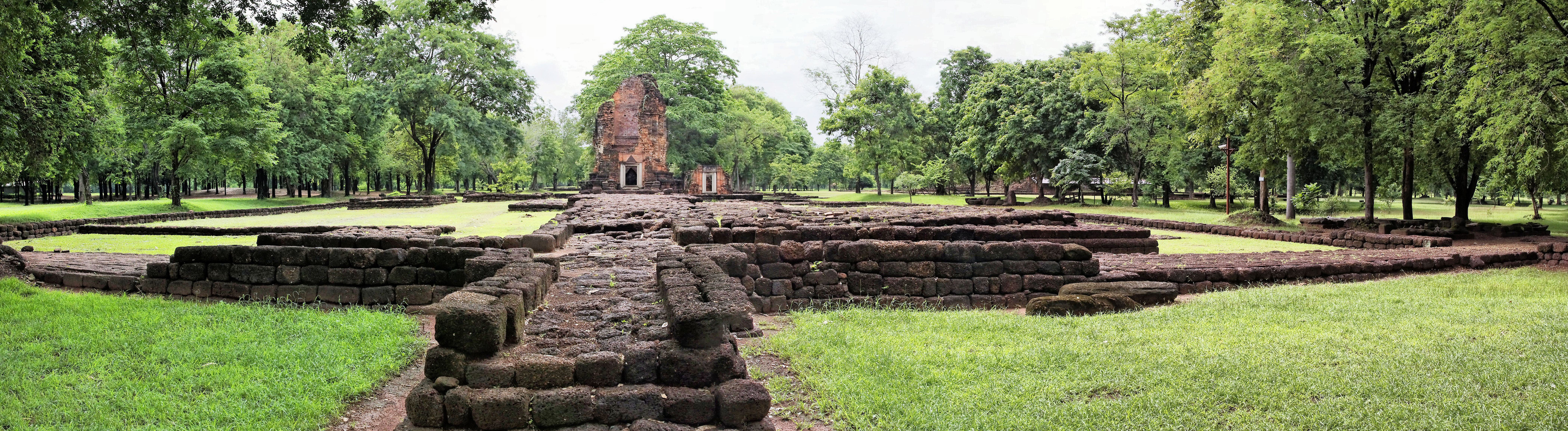 Prang Song Phi Nong, Si Thep Historical Park, Si Thep District, Phetchabun Province, Thailand